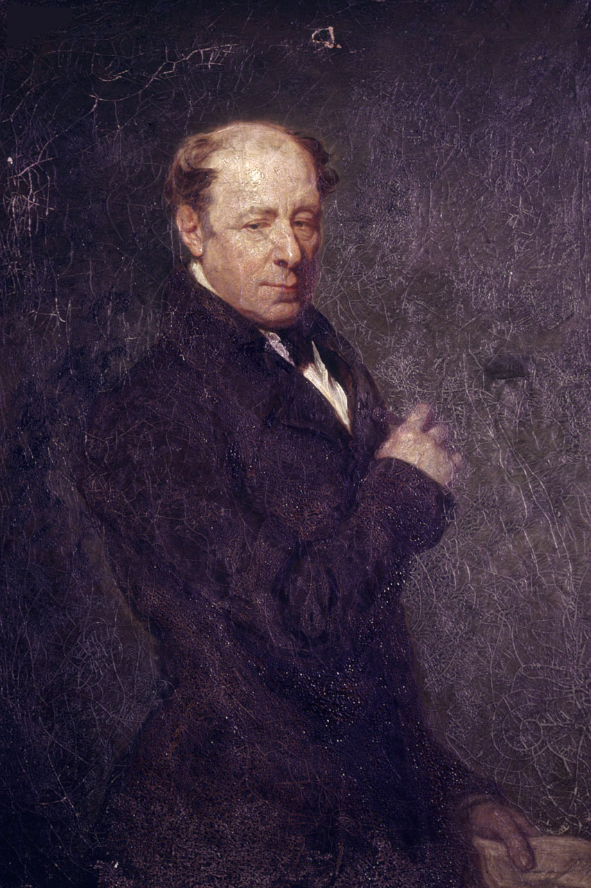 Robert Seppings (1767-1840) oil on canvas 119.9 x 93 cm